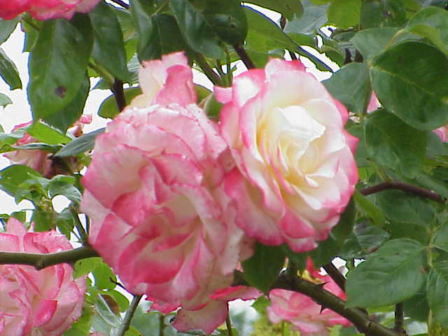 Species: Rosa sp. Family: Rosaceae Cultivar: Händel, McGredy 1965 Image No. 137